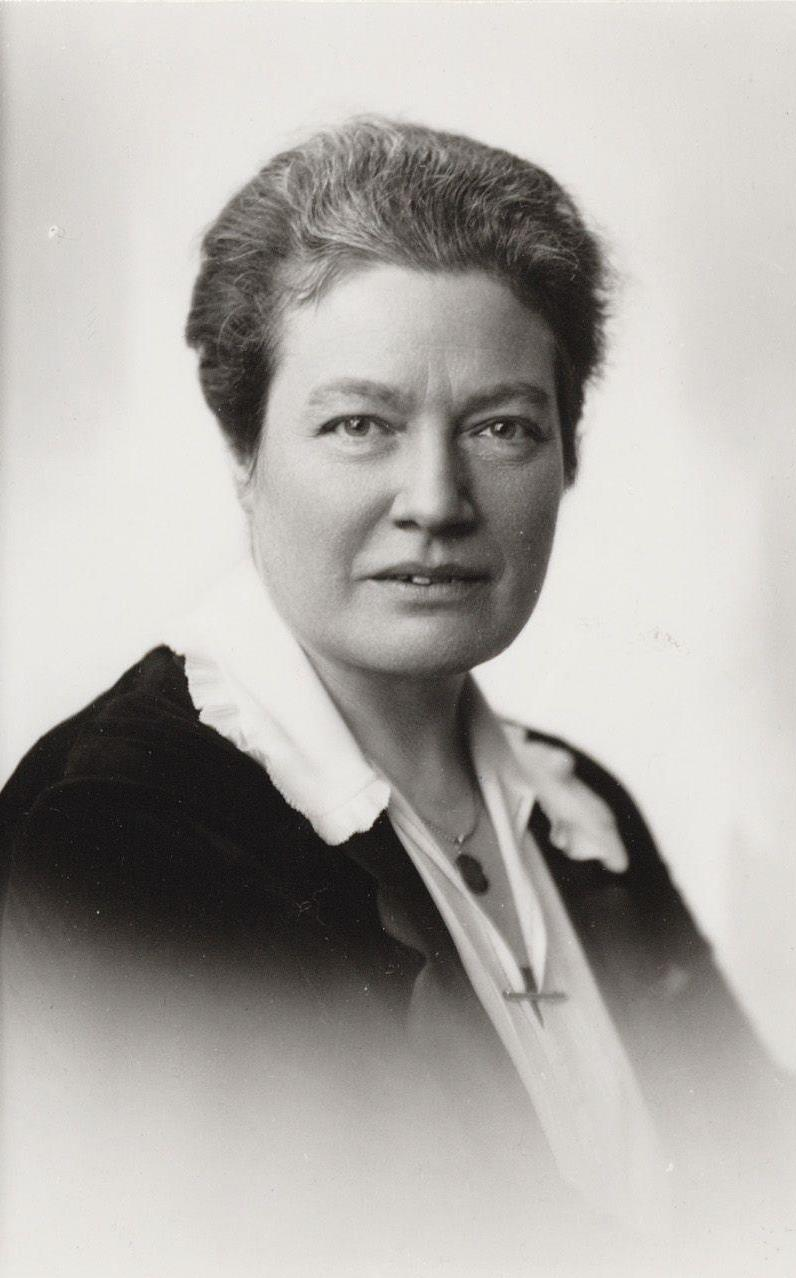 Photograph of Frida Katz by Jacob Merkelbach (1877-1942)